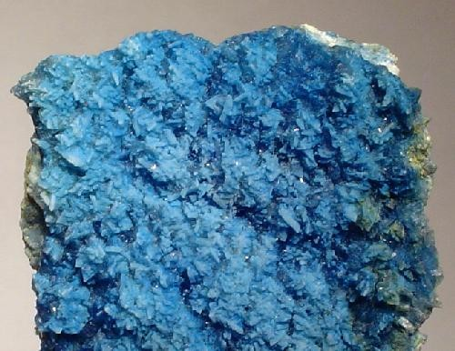 Vauxite Locality: Siglo Veinte Mine (Siglo XX Mine; Llallagua Mine; Catavi), Llallagua, Rafael Bustillo Province, Potosí Department, Bolivia (Locality at ) Size: 4.8 x 3.0 x 1.0 cm. A beautiful and showy crust covered with lustrous, two-toned blue, vauxite blades from the Type Locality.